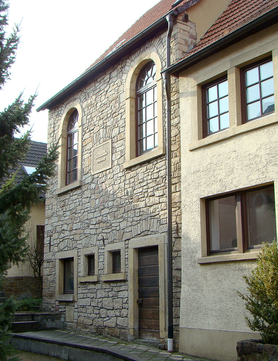 Former Synagogue in Angelbachtal-Eichtersheim